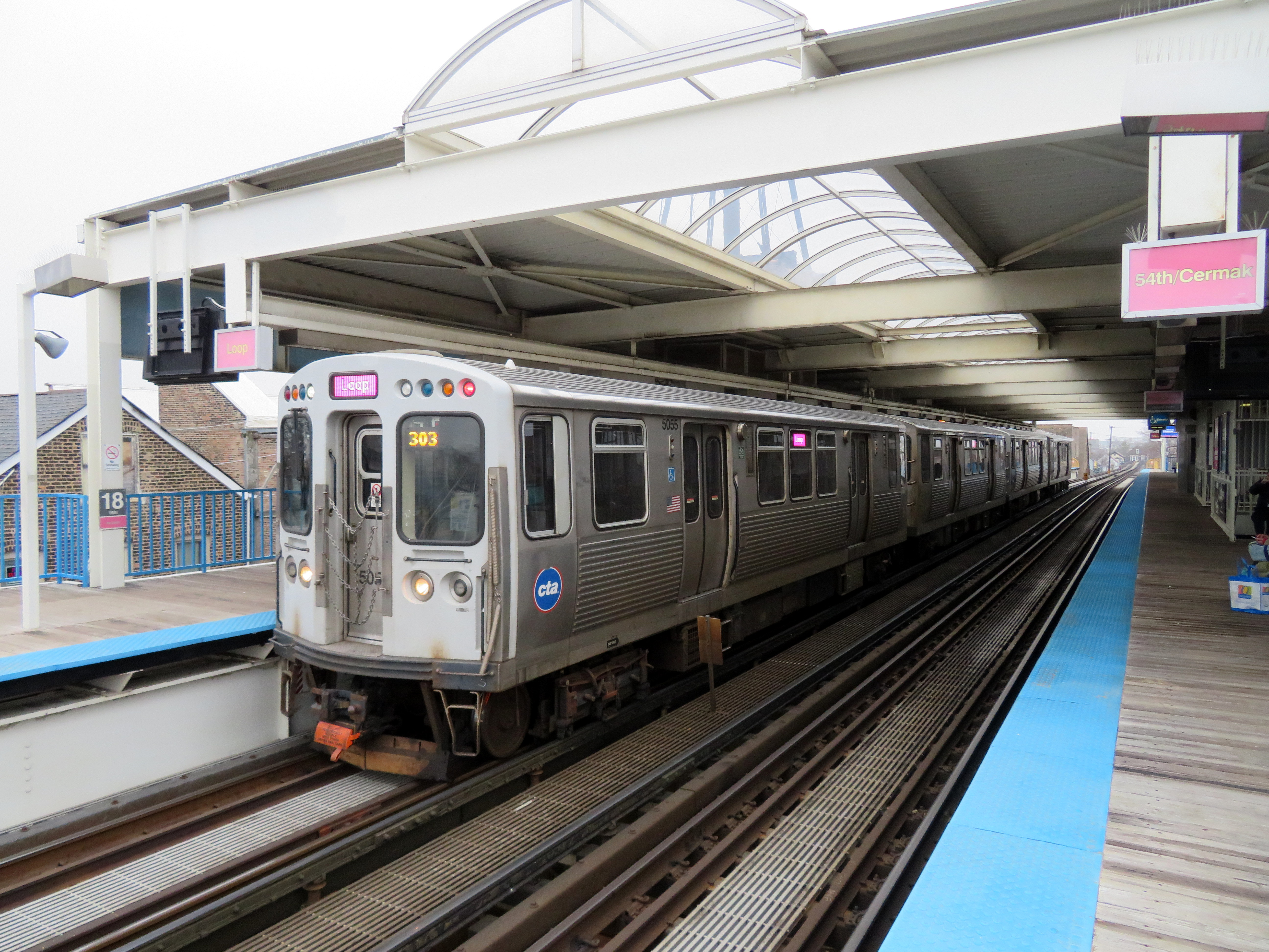 Loop-bound train at 18th station in December 2018